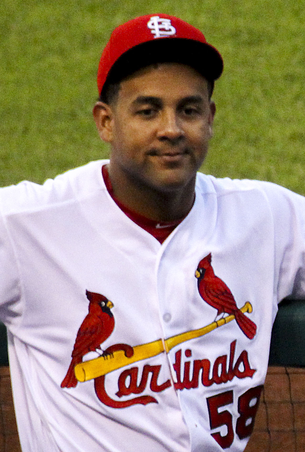 Jose Martinez of the St.Louis Cardinals, 2017